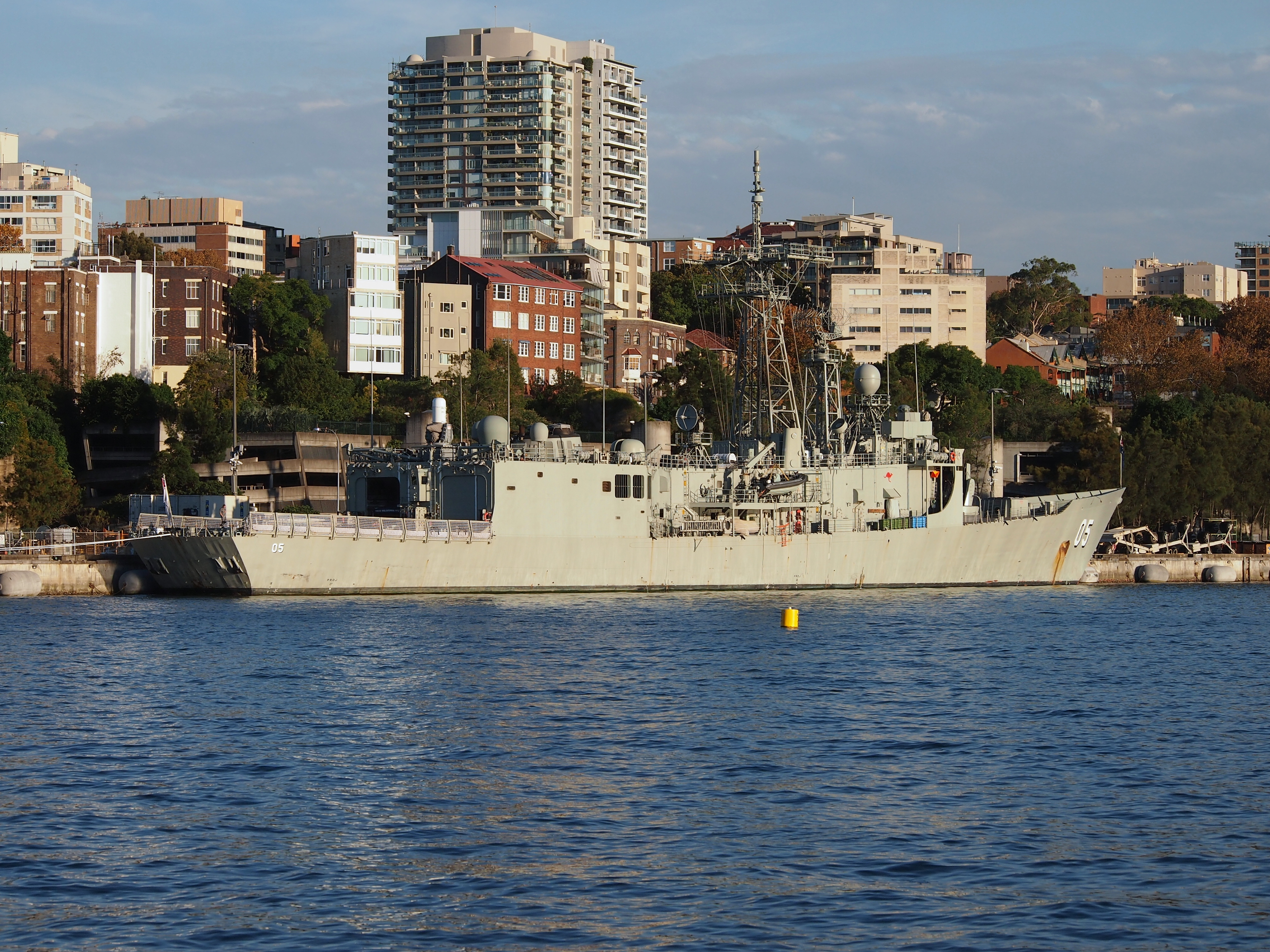 HMAS Melbourne alongside at Fleet Base East in Sydney during April 2013